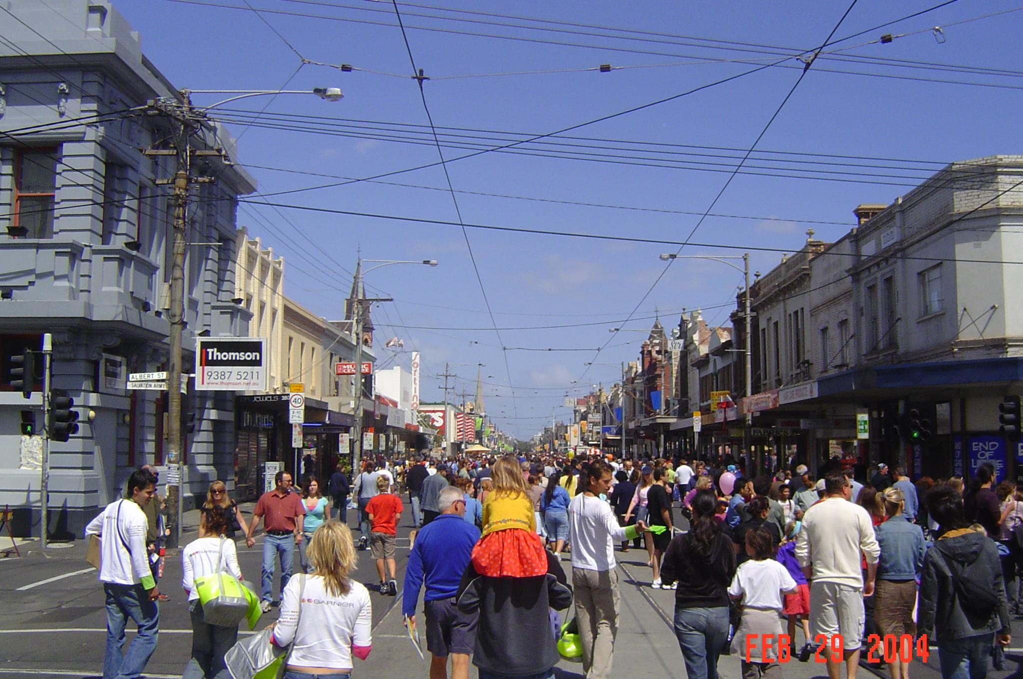 Sydney road street party in Feb 2004, Sydney Road, Melbourne